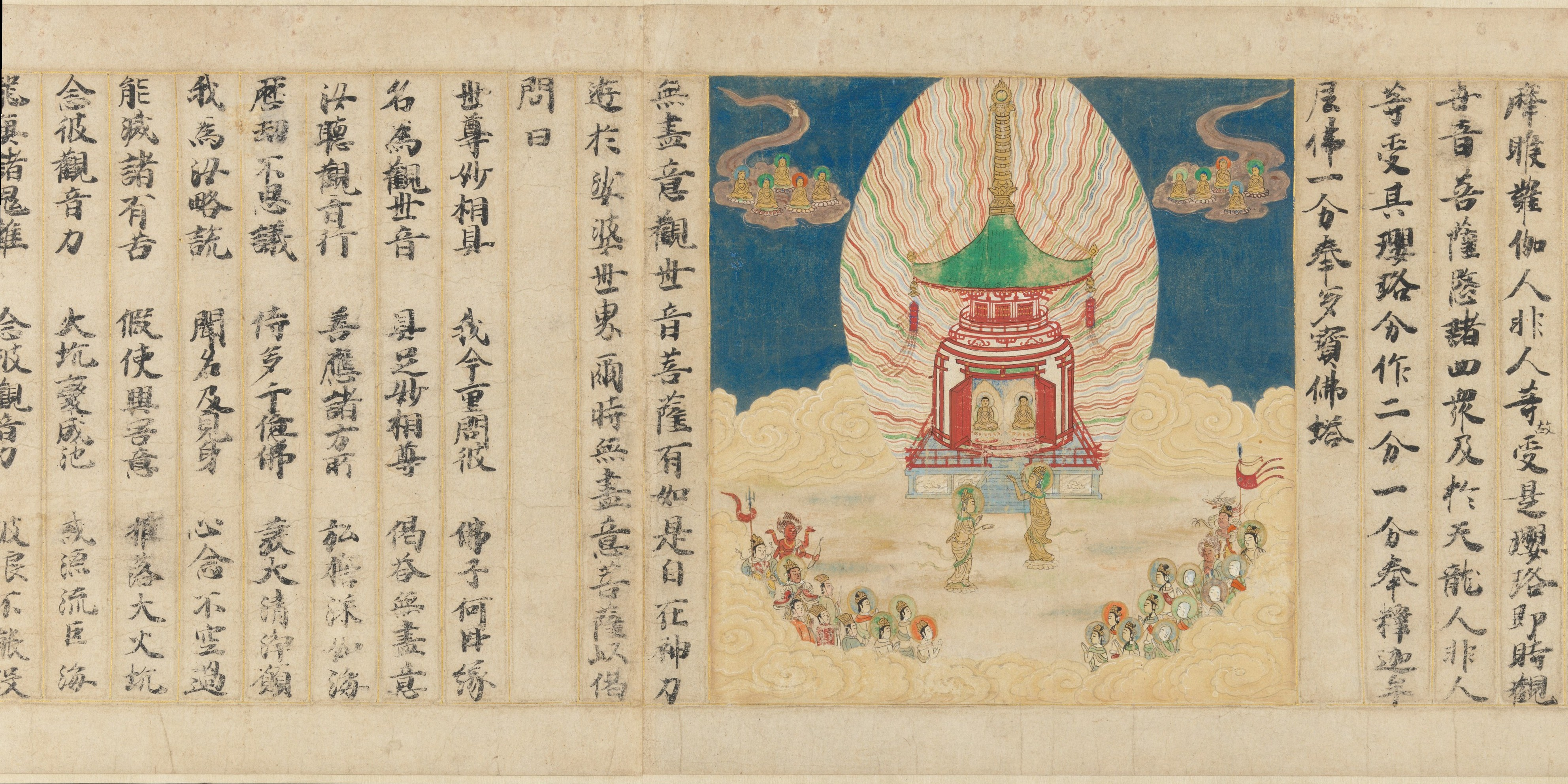 Illustrated Lotus Sutra, text inscribed by Sugawara Mitsushige, Kamakura period, dated 1257, handscroll; ink, color, and gold on paper, 9 11/16 x 368 1/16 in. (24.6 x 934.9 cm) with mounting, Metropolitan Museum of Art, accession 53.7.3